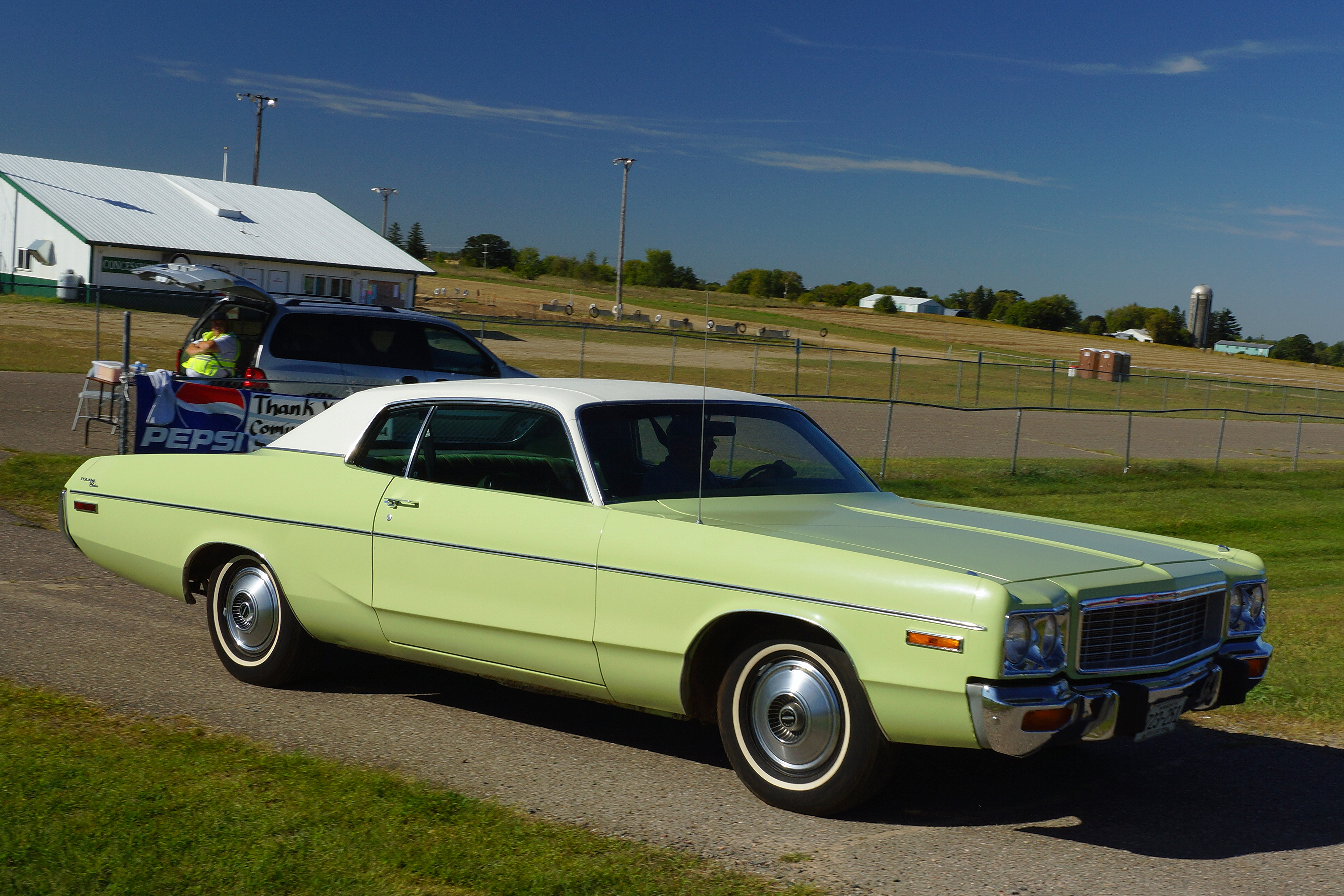 Click here for more car pictures at my Flickr site. Or here for my Car Crazy Tumblr site.